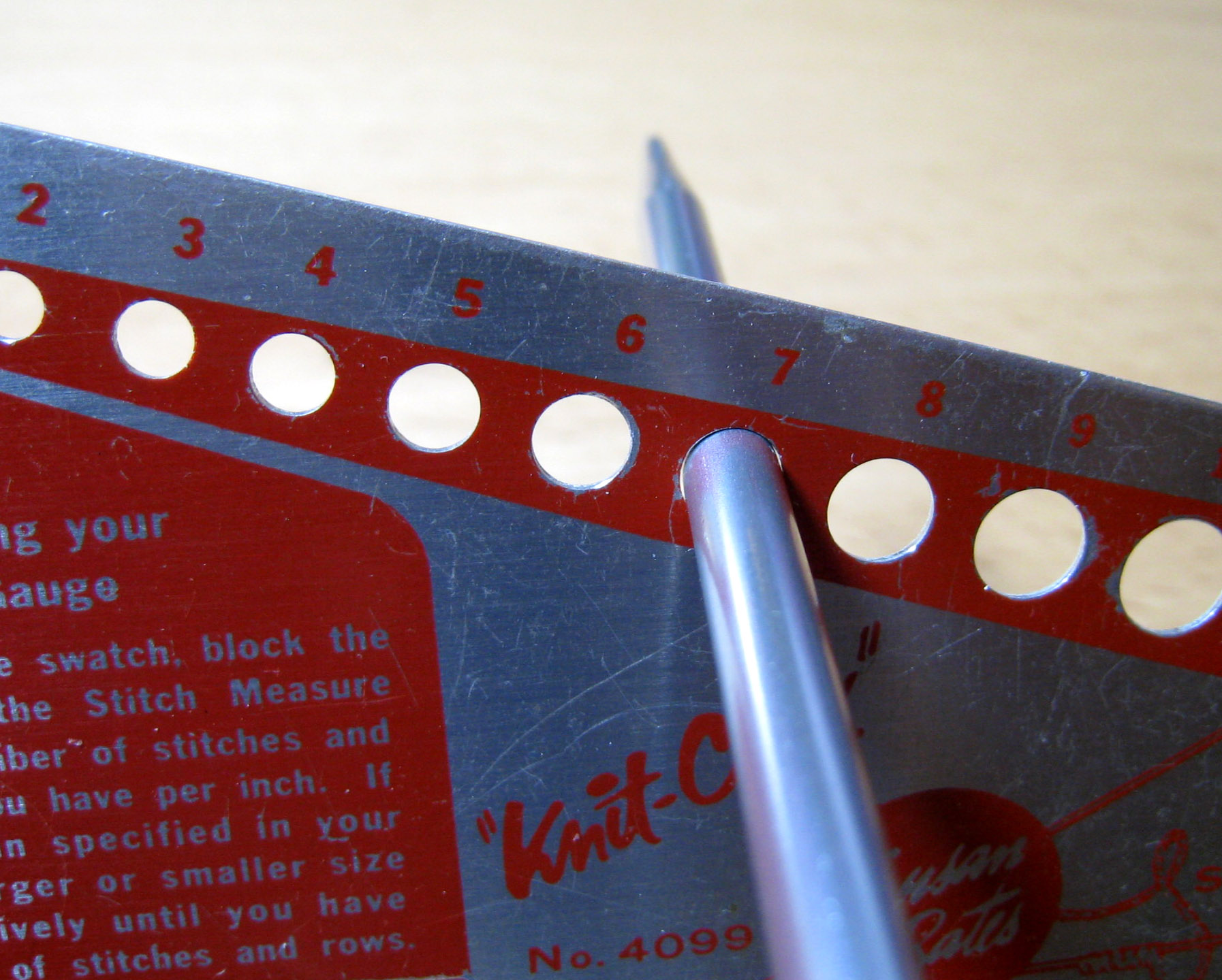 A size checker for knitting needles, shown in use.